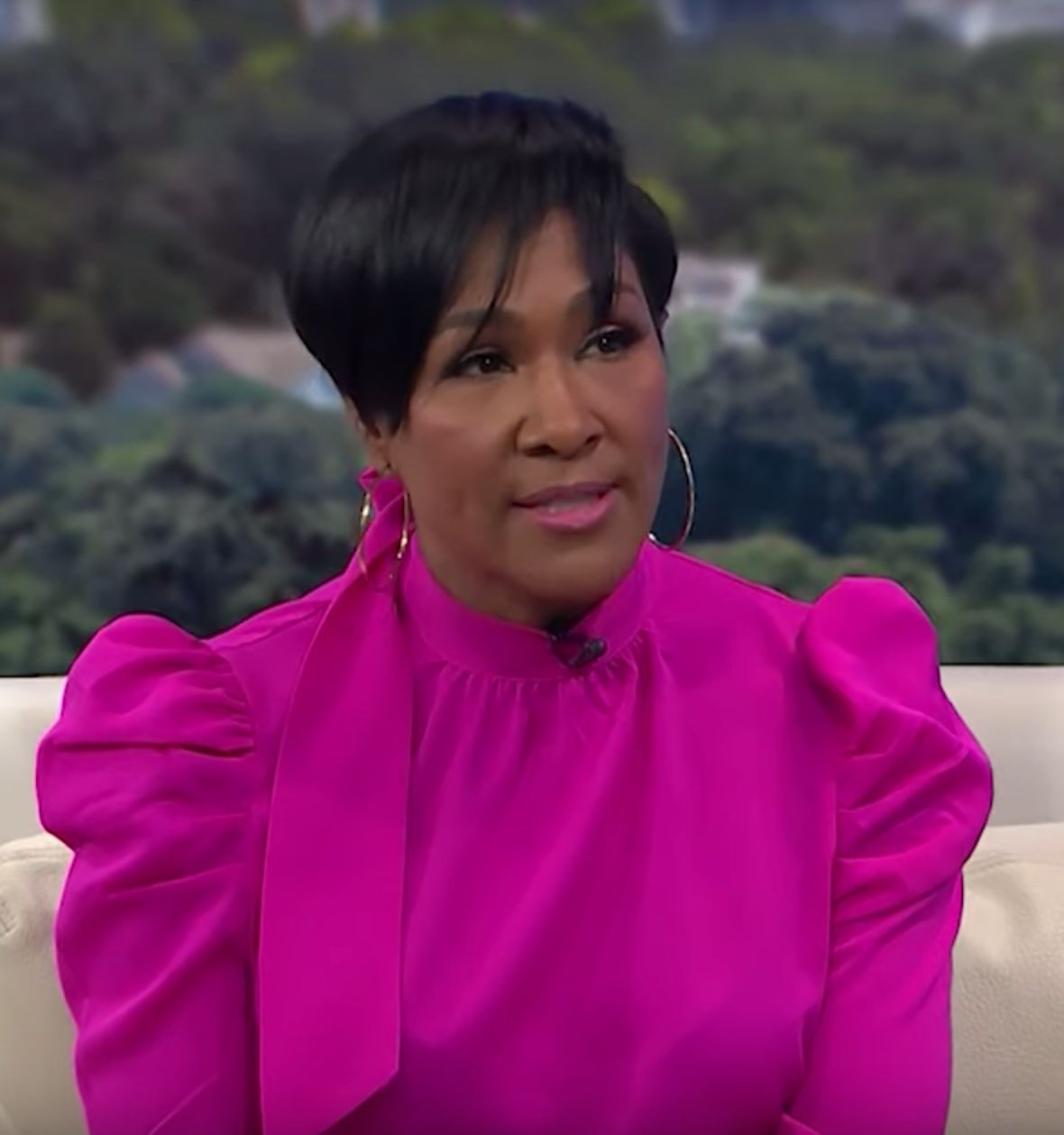 Behind The Lens With Terri J. Vaughn